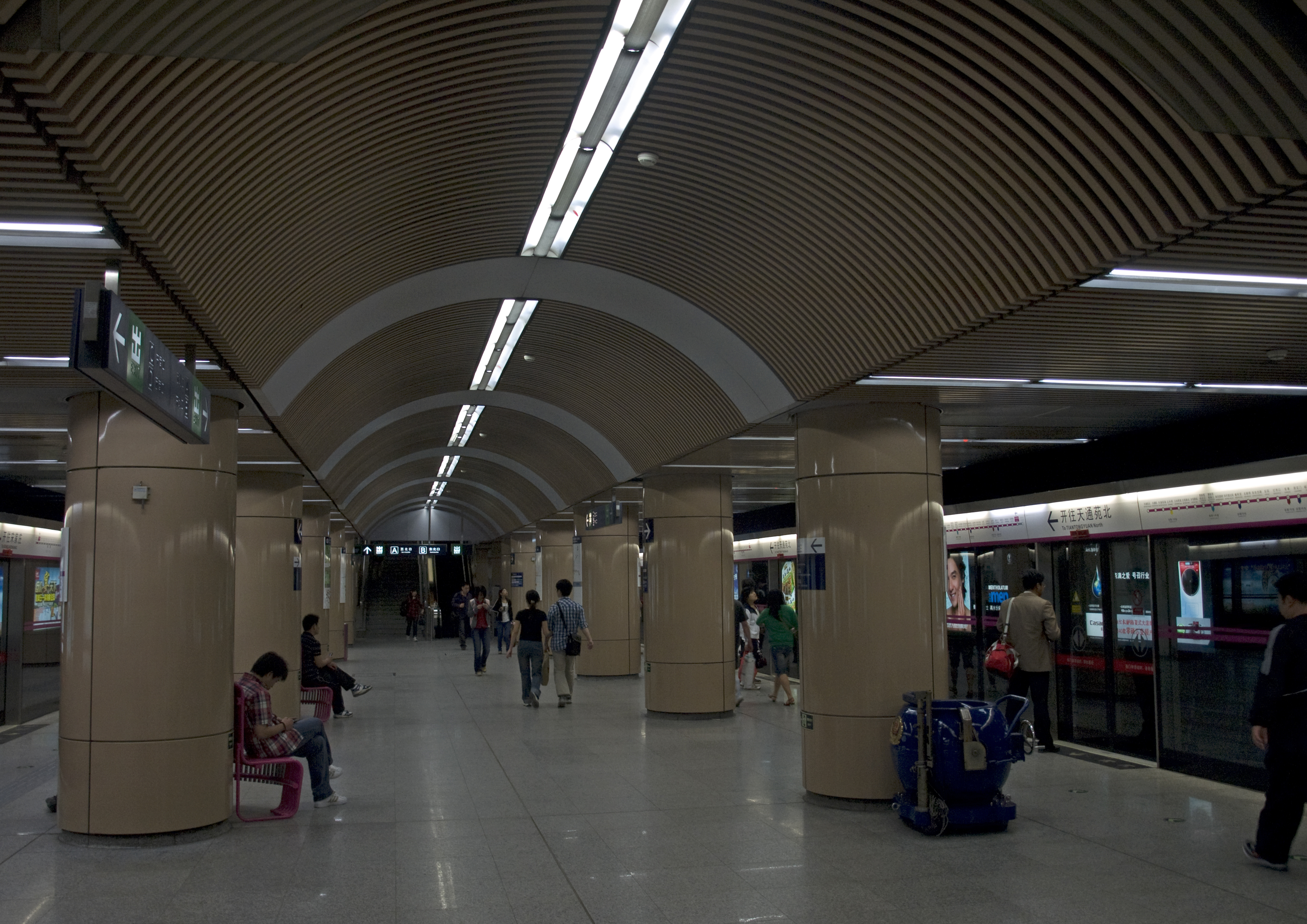 Liujiayao station, Beijing Subway